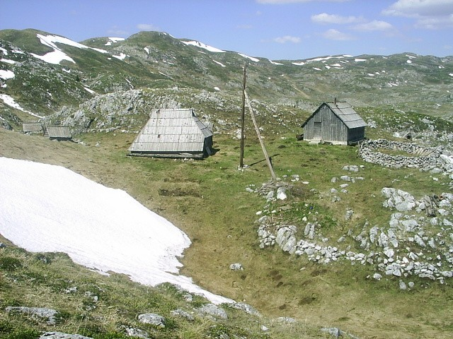 Sinjajevina hills in Montenegro